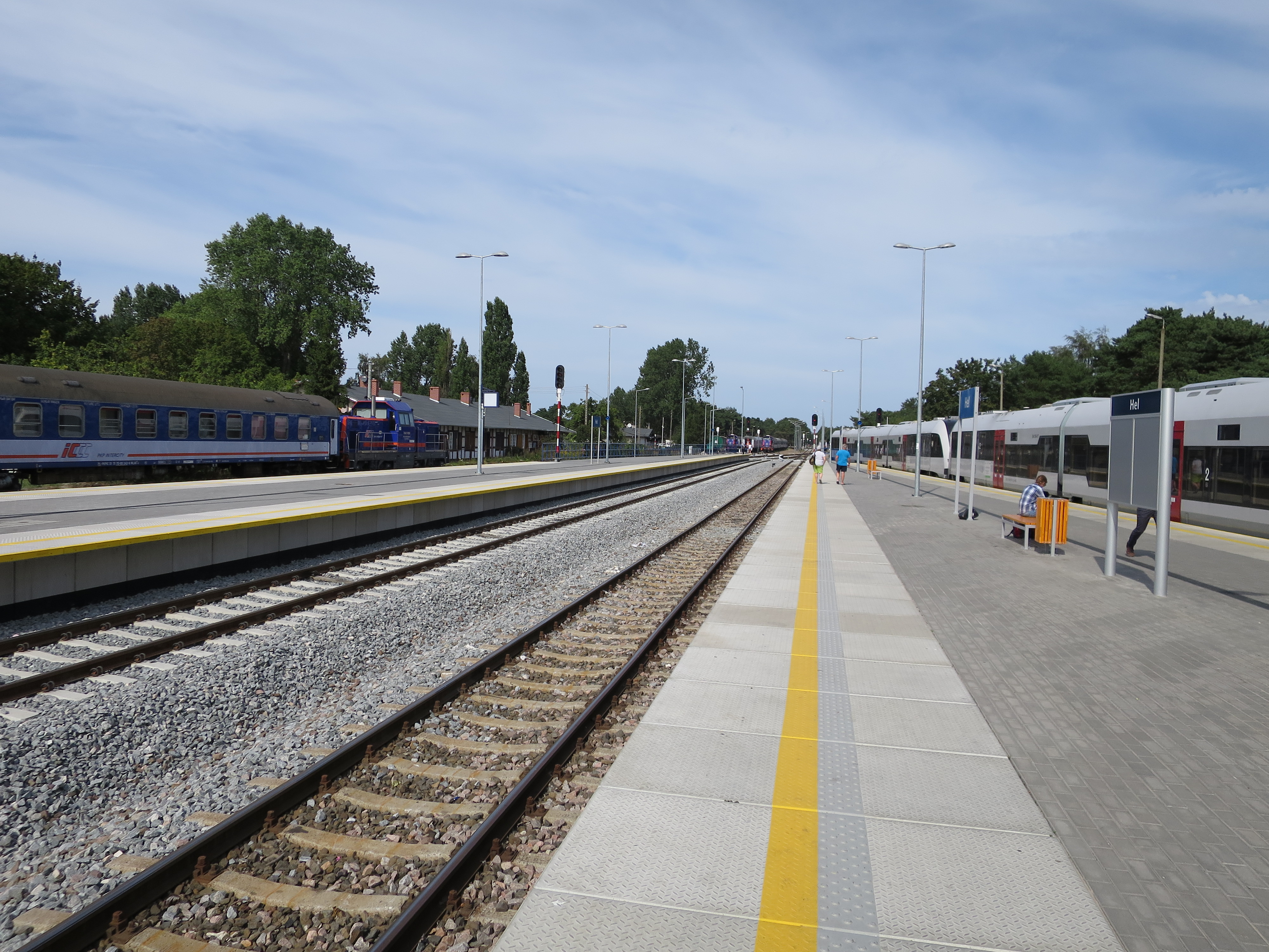 Hel This photo was taken during Railway Wikiexpedition 2015 set up by Wikimedia Polska Association in cooperation with Fundacja Grupy PKP. You can see all photographs in category Wikiekspedycja kolejowa 2015.